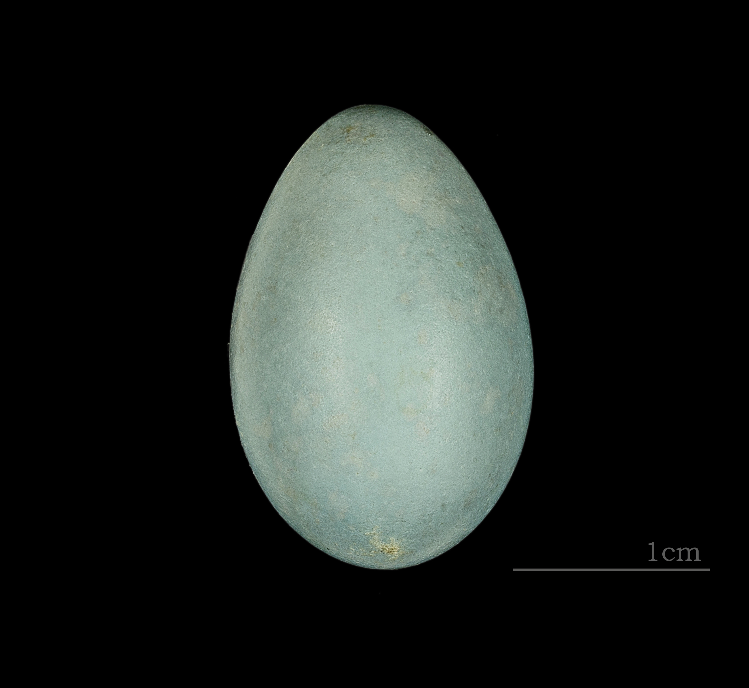 Egg of White-bellied Redstart. Collection of Henri Heim de Balsac /Jacques Perrin de Brichambaut